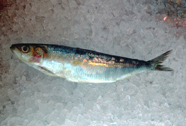 A sardine in ijs